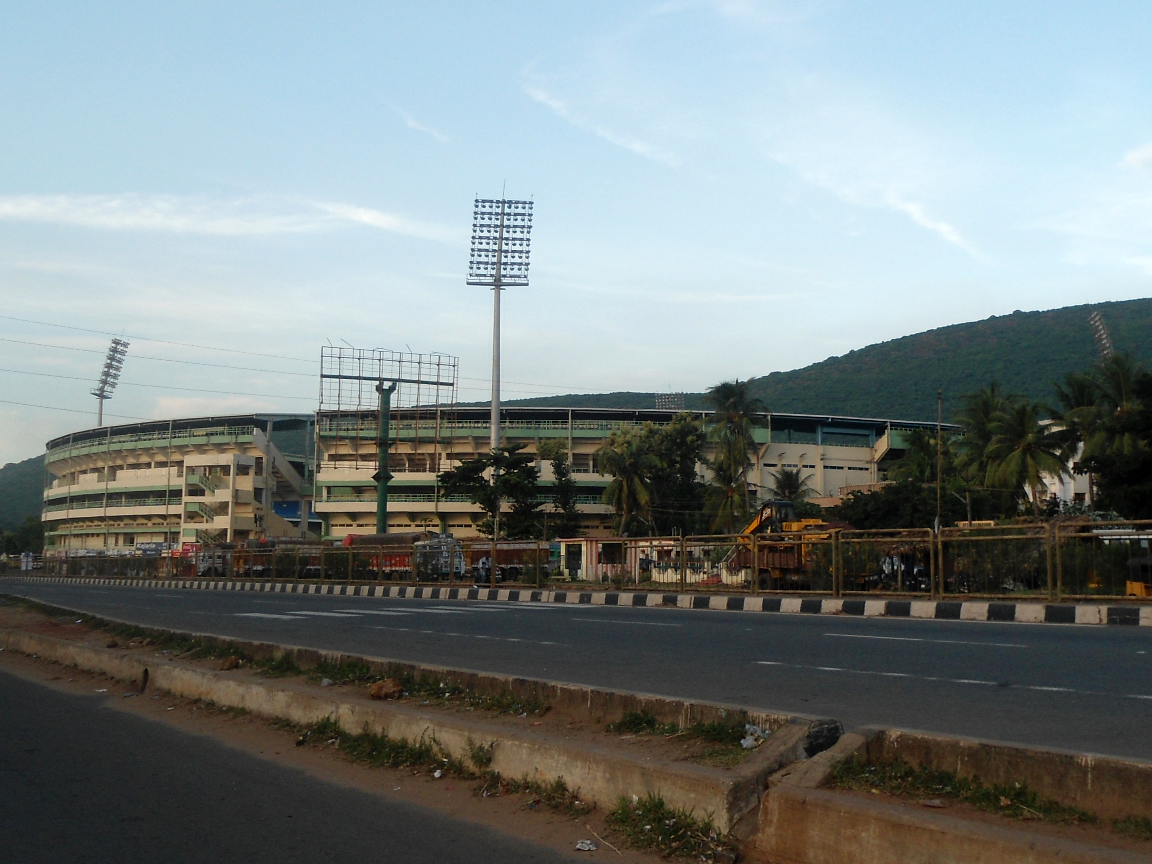 ACA-VDCA stadium at Madhurawada, Visakhapatnam